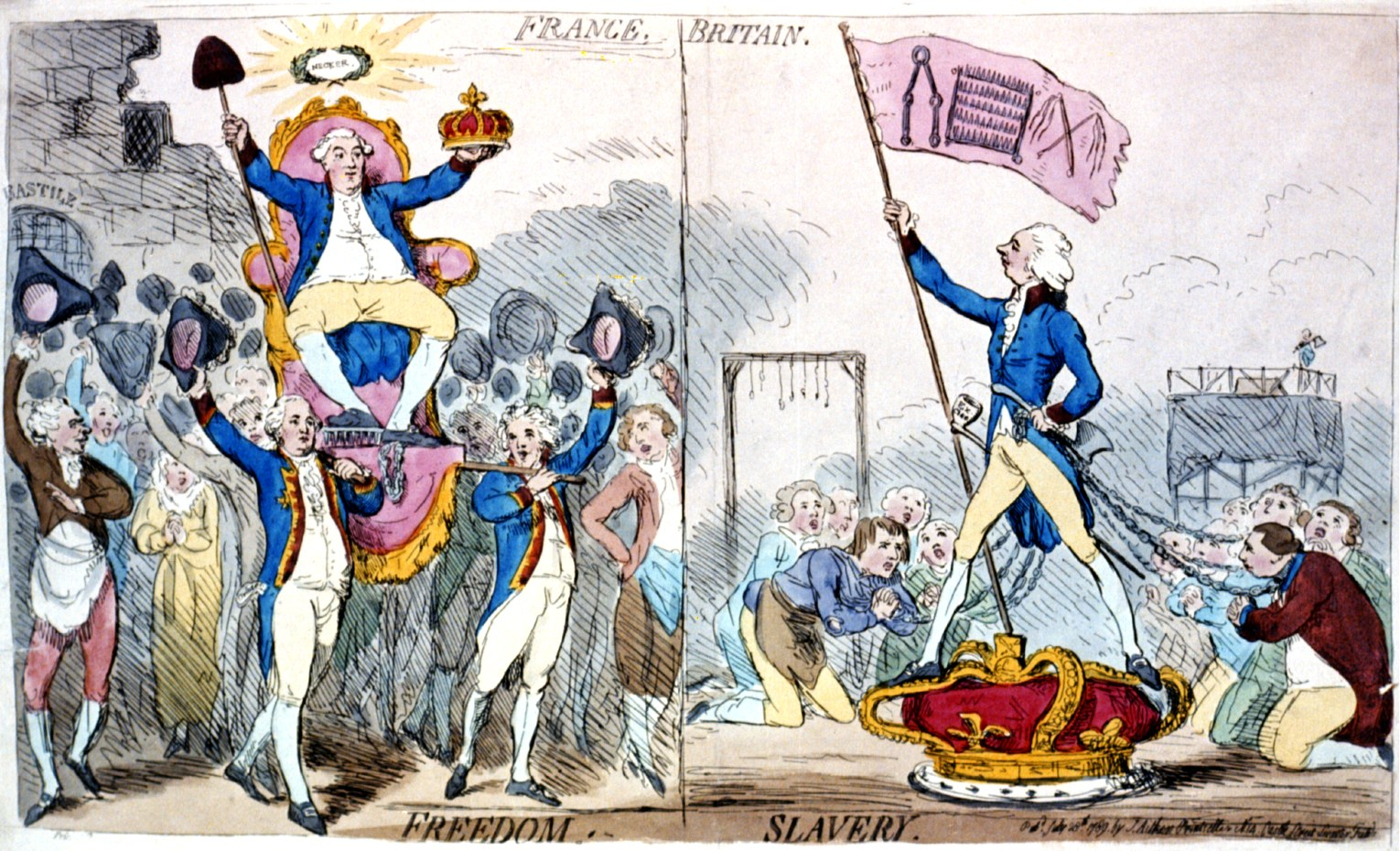 France. Britain. Freedom. Slavery SUMMARY: "A design in two compartments. On the left the triumph of Necker in a land of 'Freedom', in the other that of Pitt in a land of 'Slavery"..." (Source: George) MEDIUM: 1 print : engraving. CREATED/PUBLISHED: [England] : Pubd. July 28th, 1789, by J. Aitken, Printseller, N. 14 Castle Street, Leicester Field, 1789.